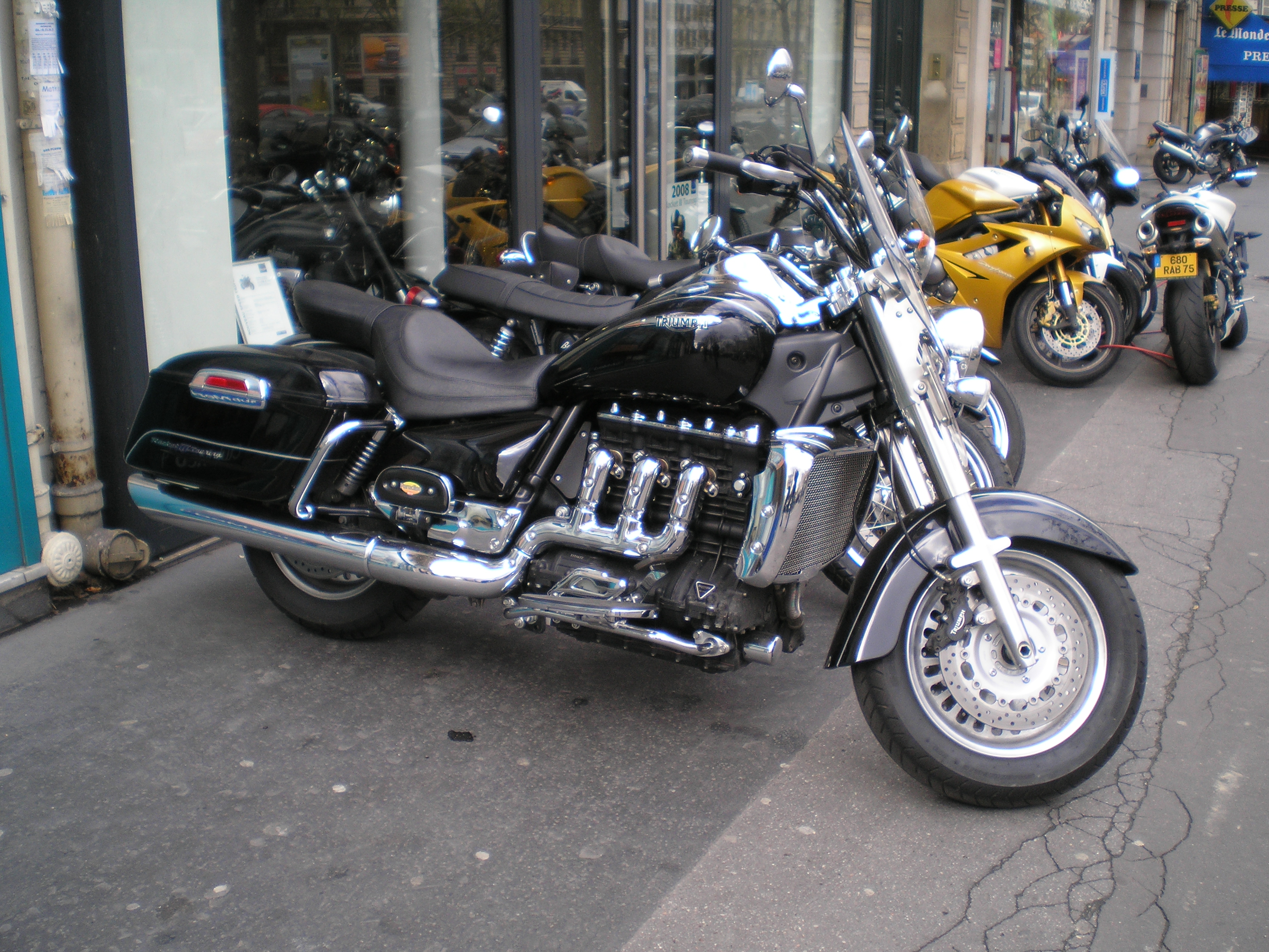 Triumph 2300 Rocket III Touring